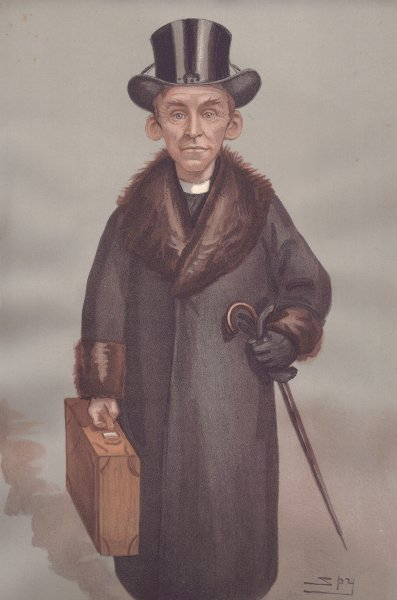 Caricature of Frederick Edward Ridgeway. Caption read "Kensington".